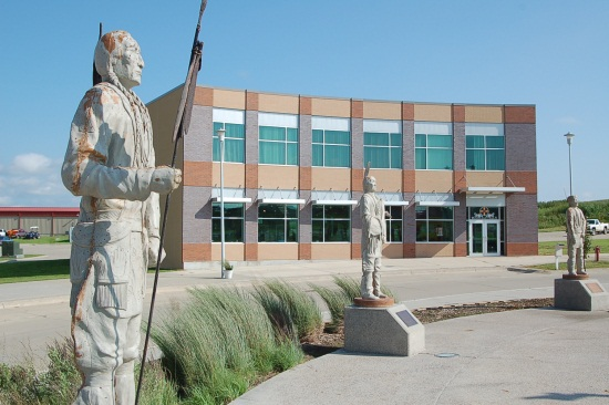 Ho-Chunk Village Statue Garden And Woodland Trails Building, Winnebago, NE